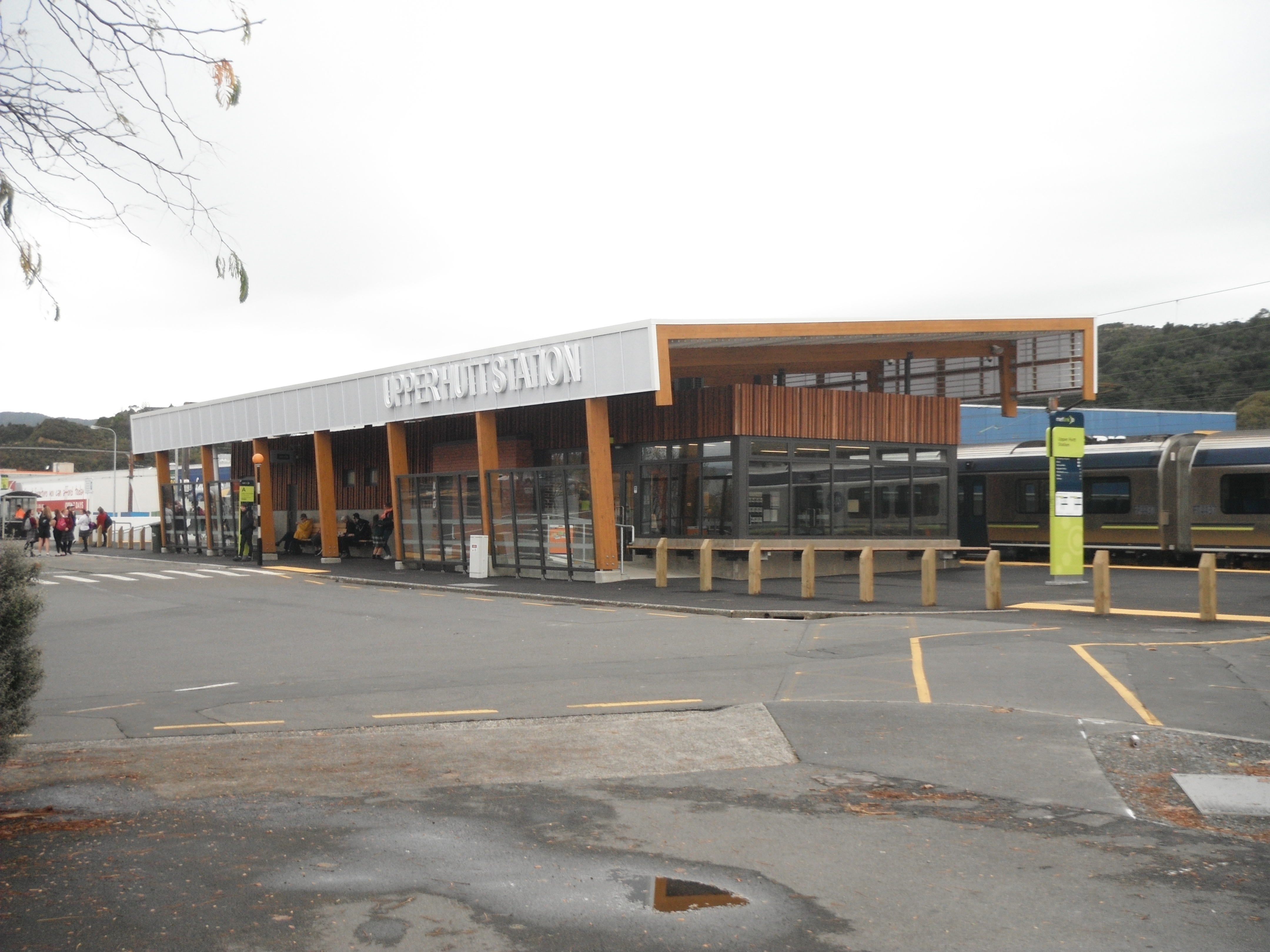 Upper Hutt railway station's new station building, May 2016. The new building opened in November 2015 to replace the 1955 building. Two "Matangi" FP/FT electric multiple units (4437 and 4155) are in the main platform.